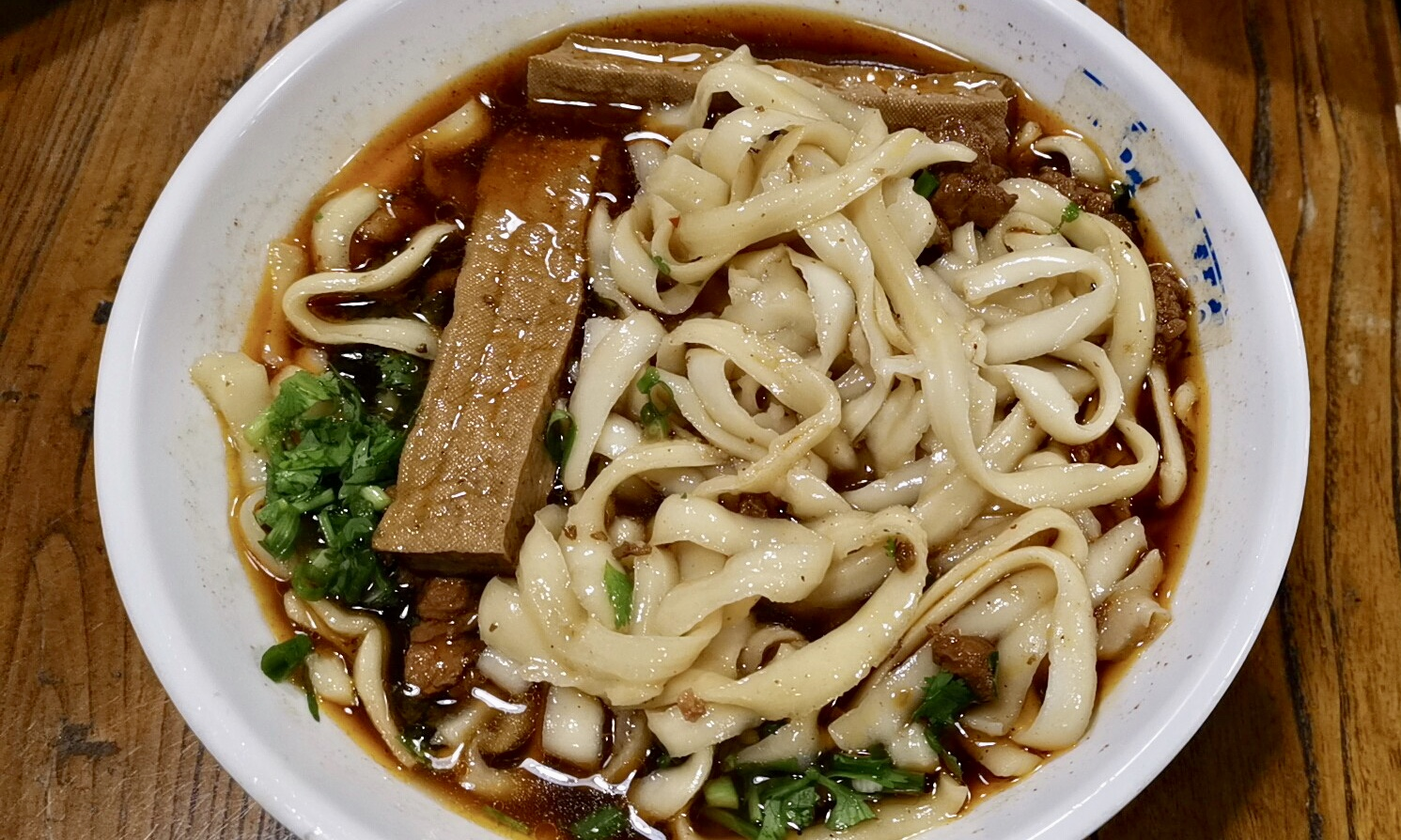 A Chinese traditional food named sliced noodles.